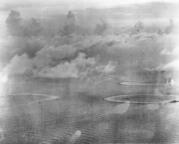 Japanese Carrier Division Three under attack by United States Navy aircraft from Task Force 58 in the battle of the Philippine Sea, late afternoon of 20 June 1944. Photographed from a USS Bunker Hill plane. Heavy cruiser circling at right, nearest to the camera, is either Maya or Chokai. Beyond that, is the small aircraft carrier Chiyoda.